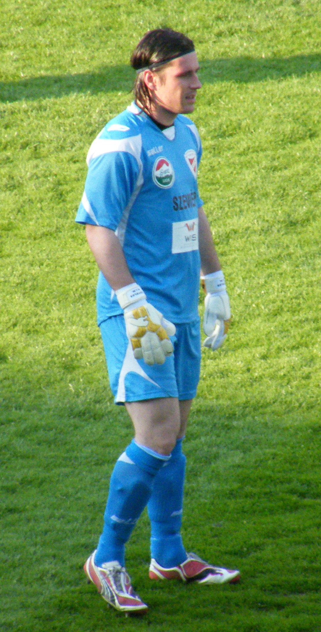 László Köteles Hungarian football player